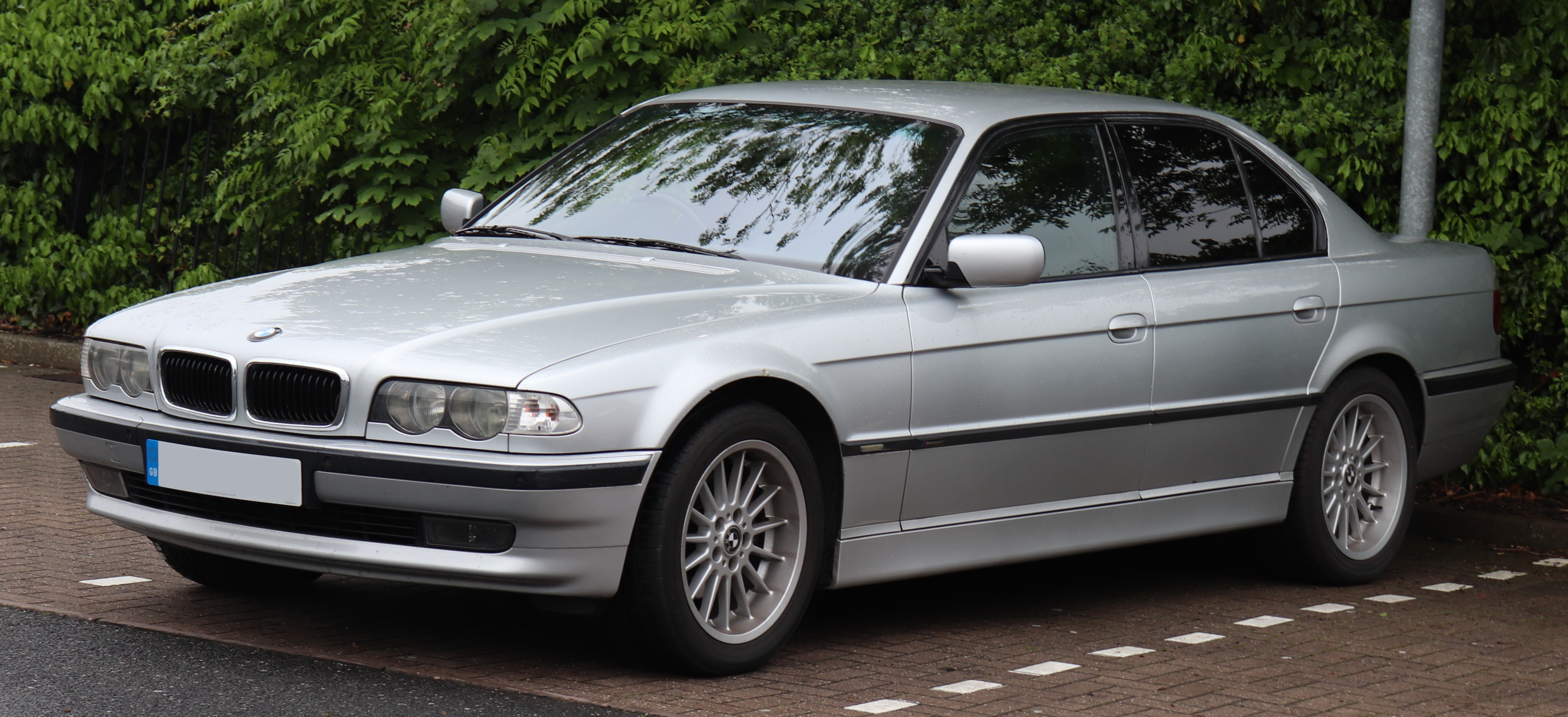 2001 BMW 728i Sport Automatic 2.8 Taken in Leamington Spa